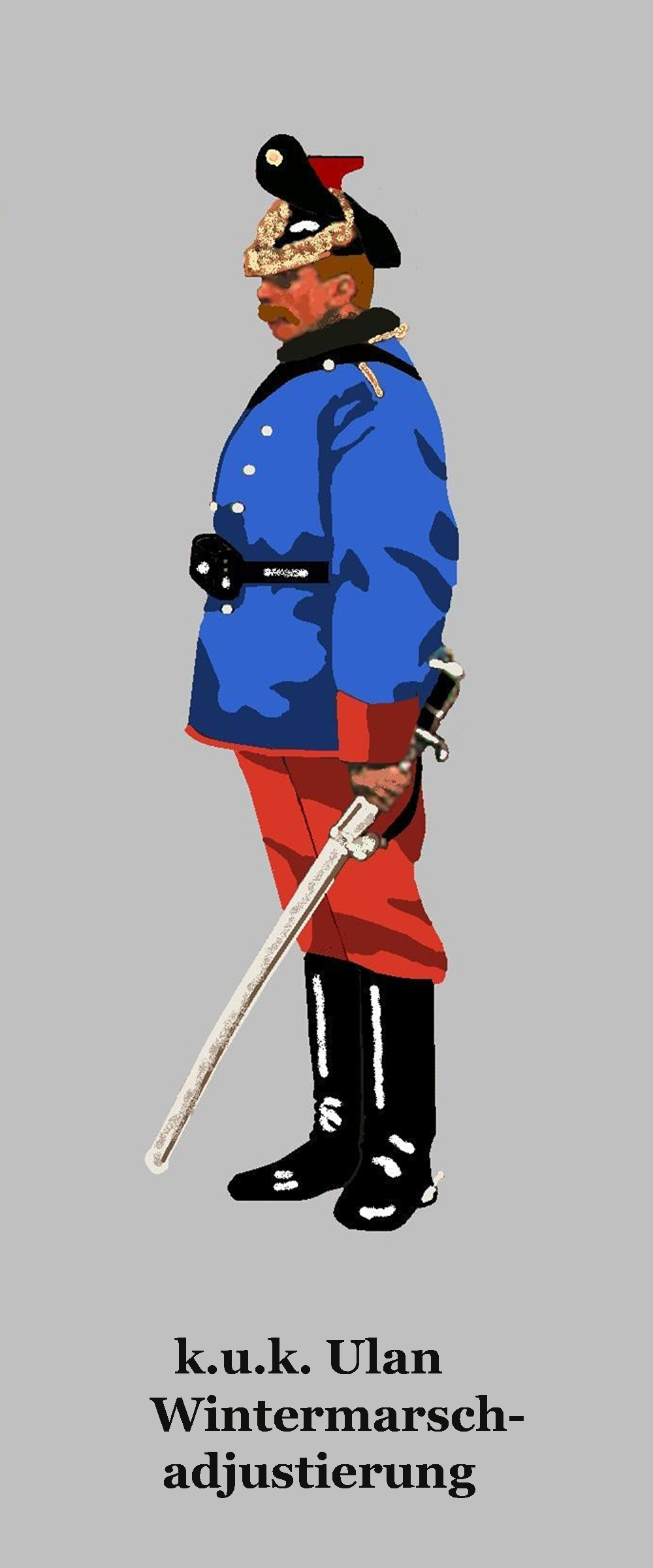 Enlisted man of the k.u.k. Army Lancers in Winter coat. Uniform worn 'til about 1916